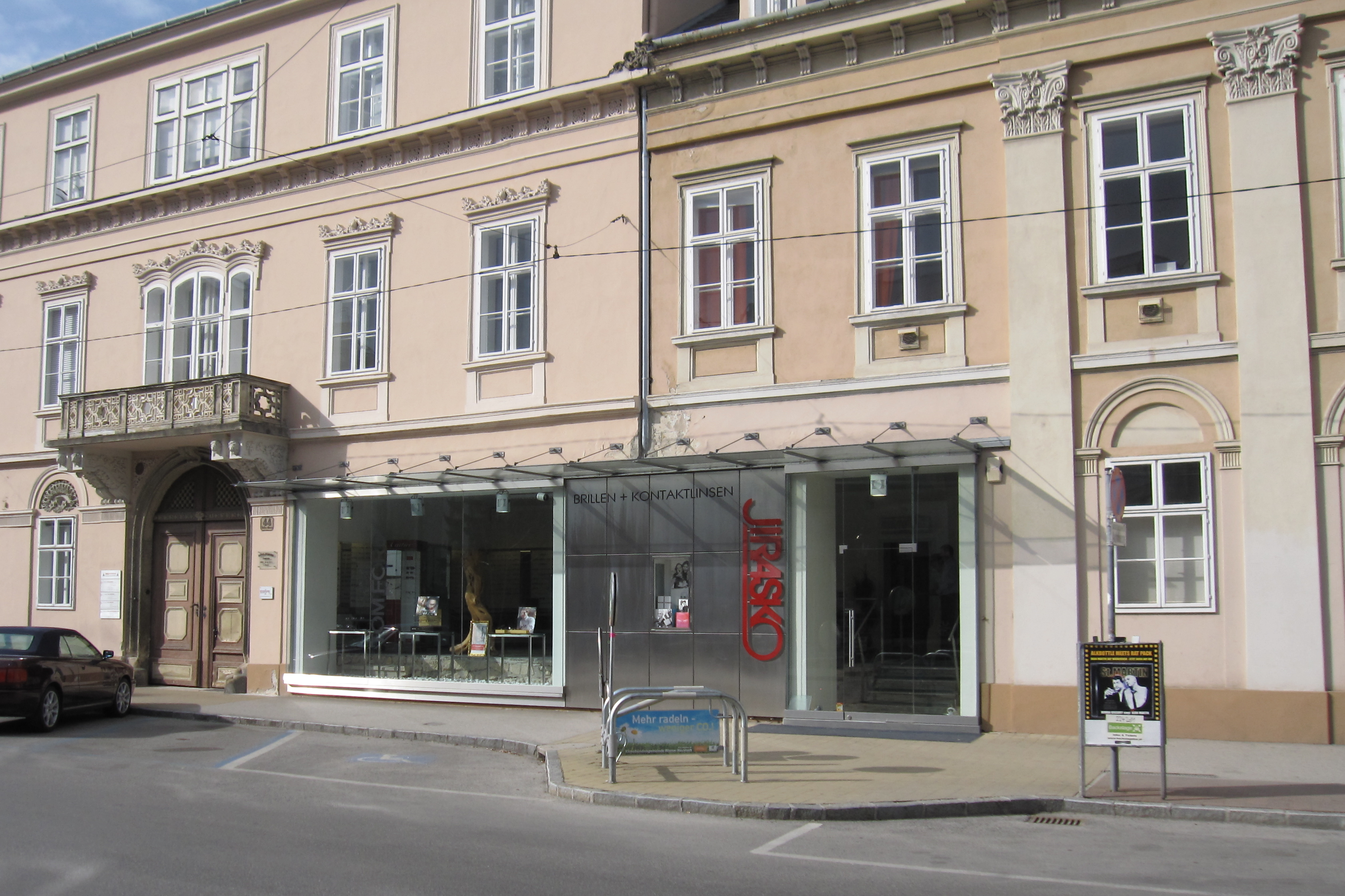 Shop of the optician Jirasko at Bahngasse 44 in Wiener Neustadt, Lower Austria.